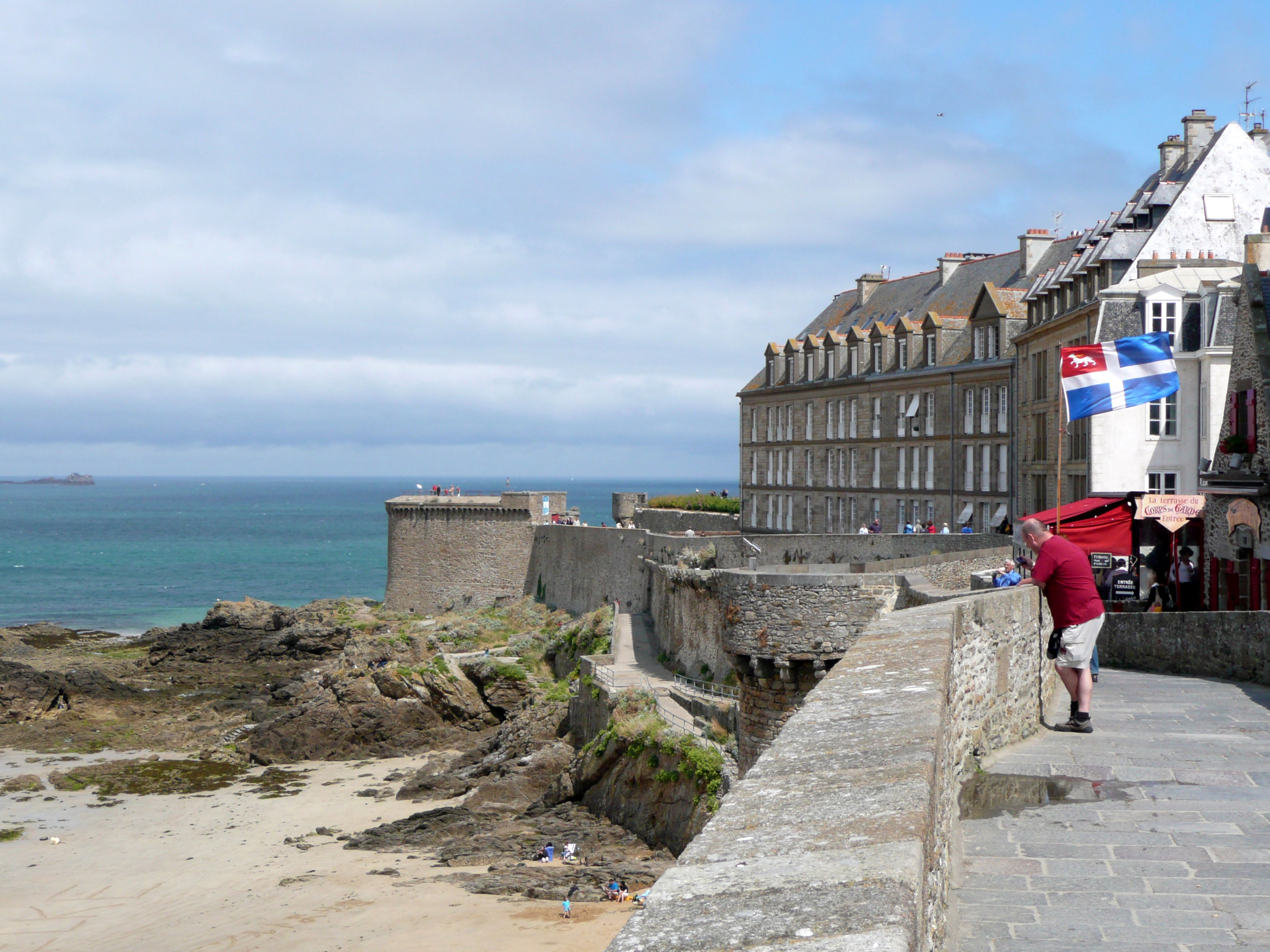 Walls of Saint-Malo, Brittany, France